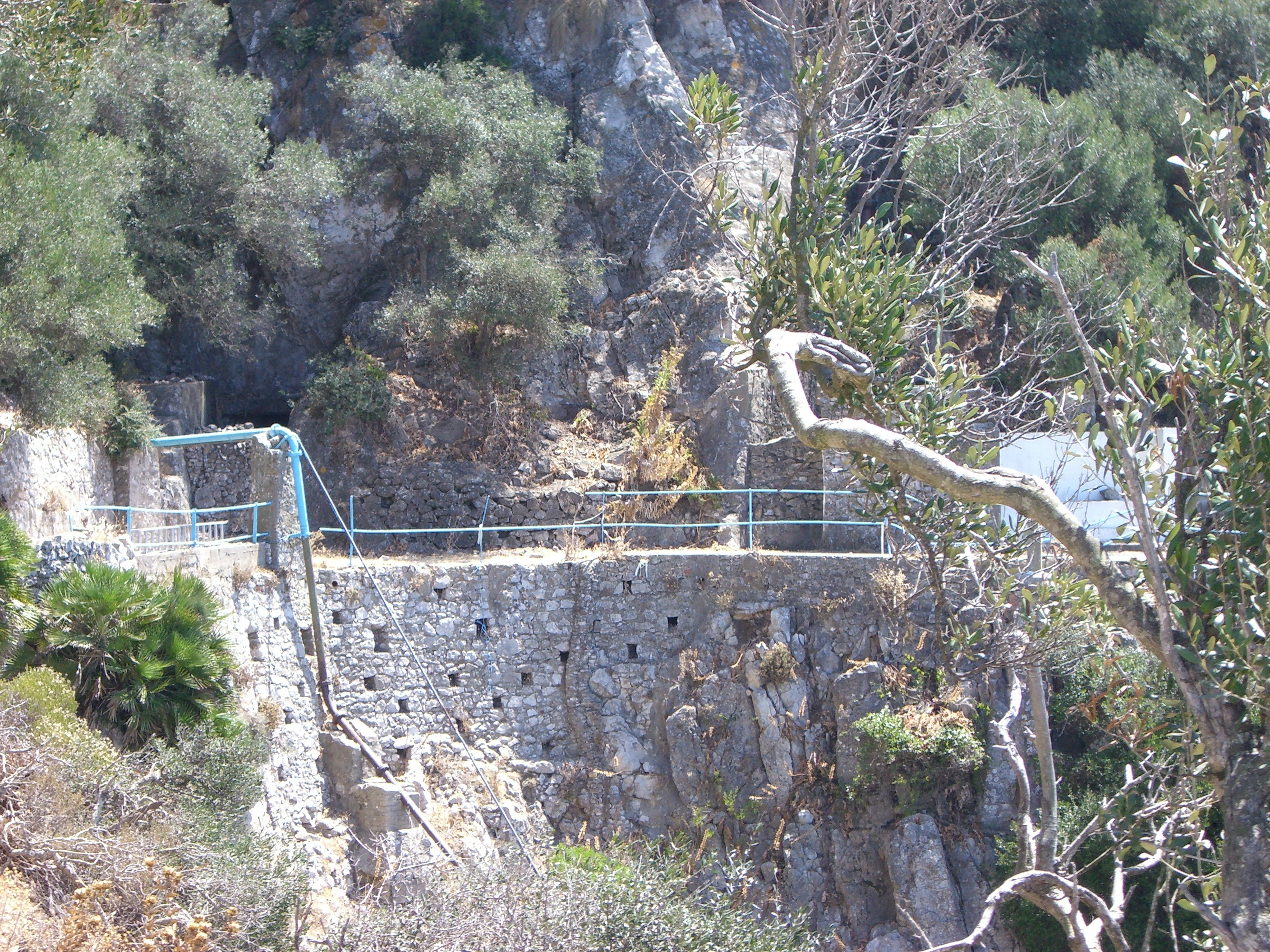 Photograph looking up at Haynes Cave Battery, Gibraltar.